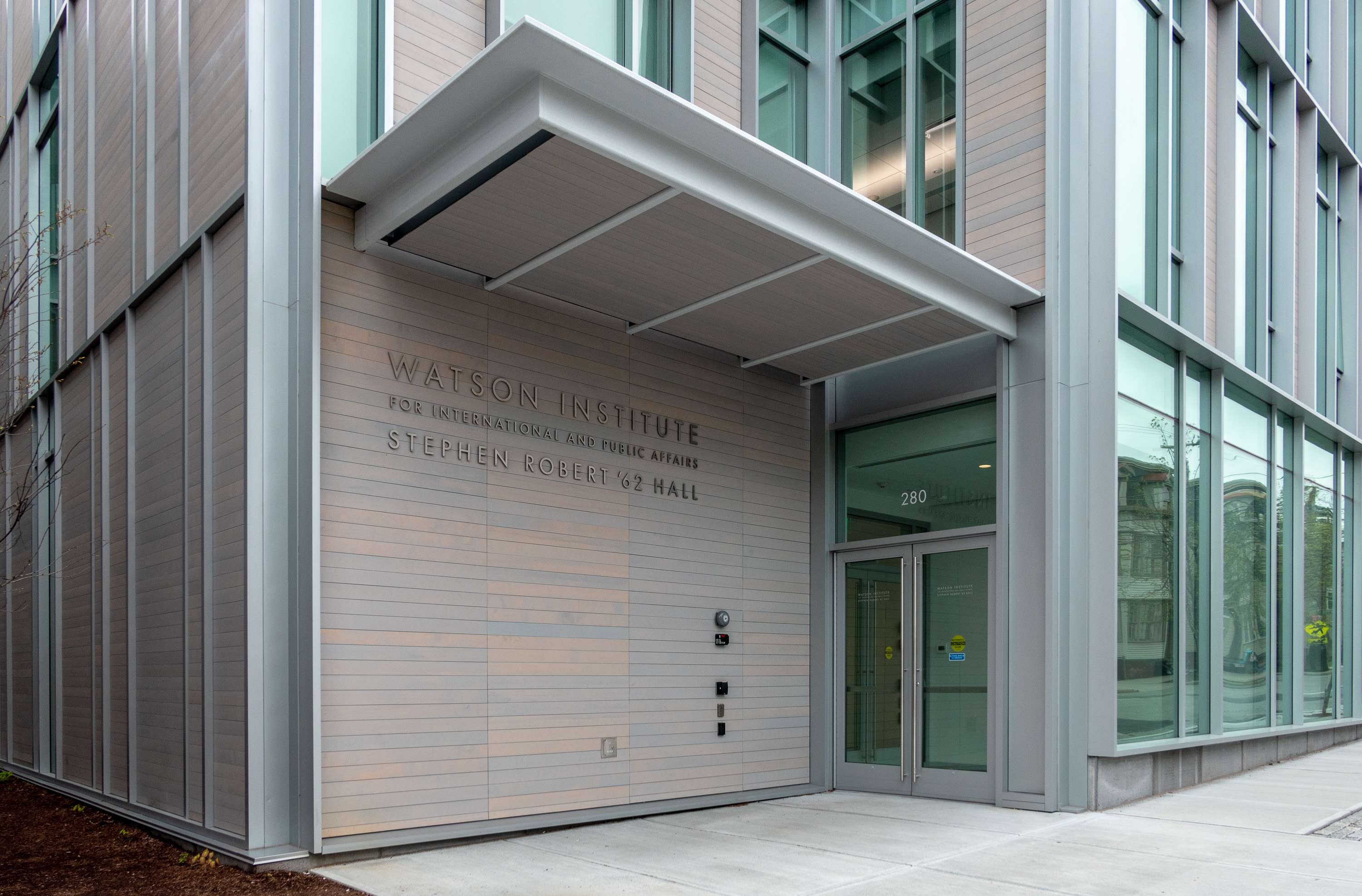 Watson Institute Stephen Robert Hall, Brown University. 280 Brook Street.